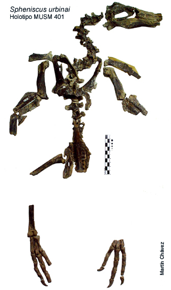 Picture of the holotype of Spheniscus urbinai